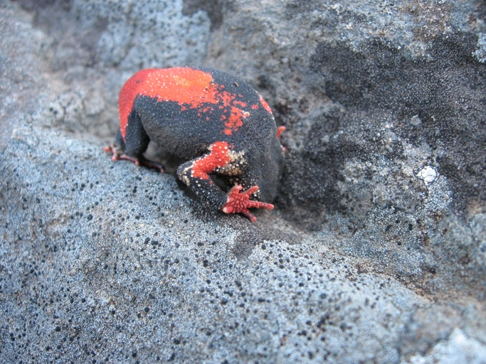 Melanophryniscus devincenzii